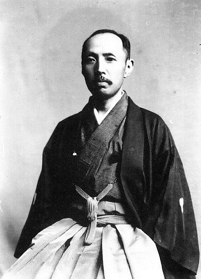 Katsuro Hara (Historian)